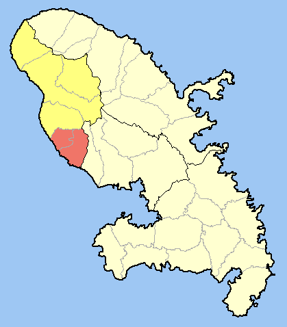 Location of Bellefontaine and Case-Pilote within Martinique